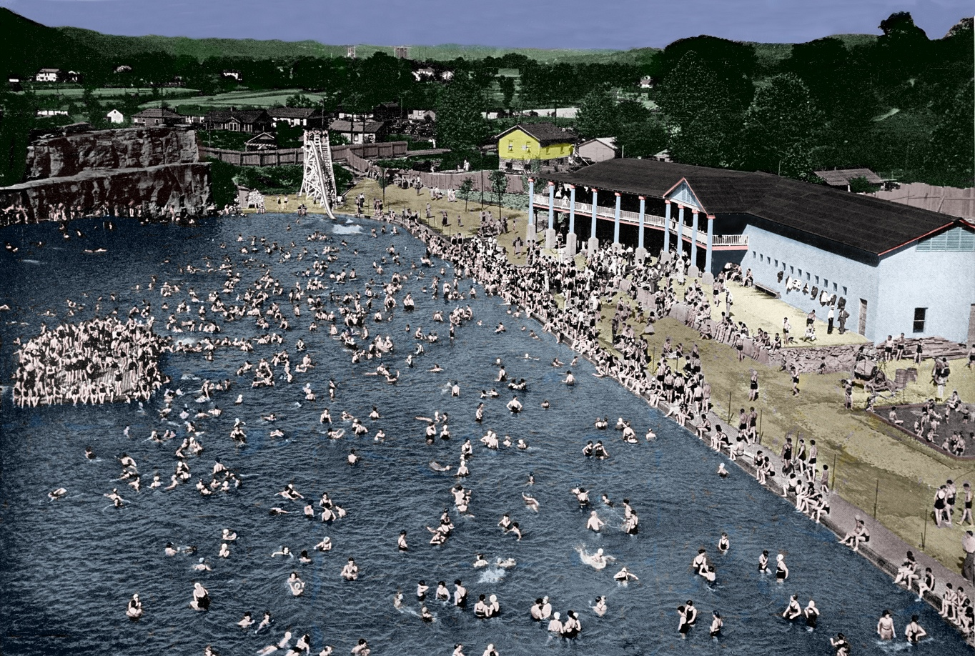 Picture taken June 6, 1949 at Rock Lake Pool in South Charleston, WV. This was one of the largest pools on the country for 45 years.